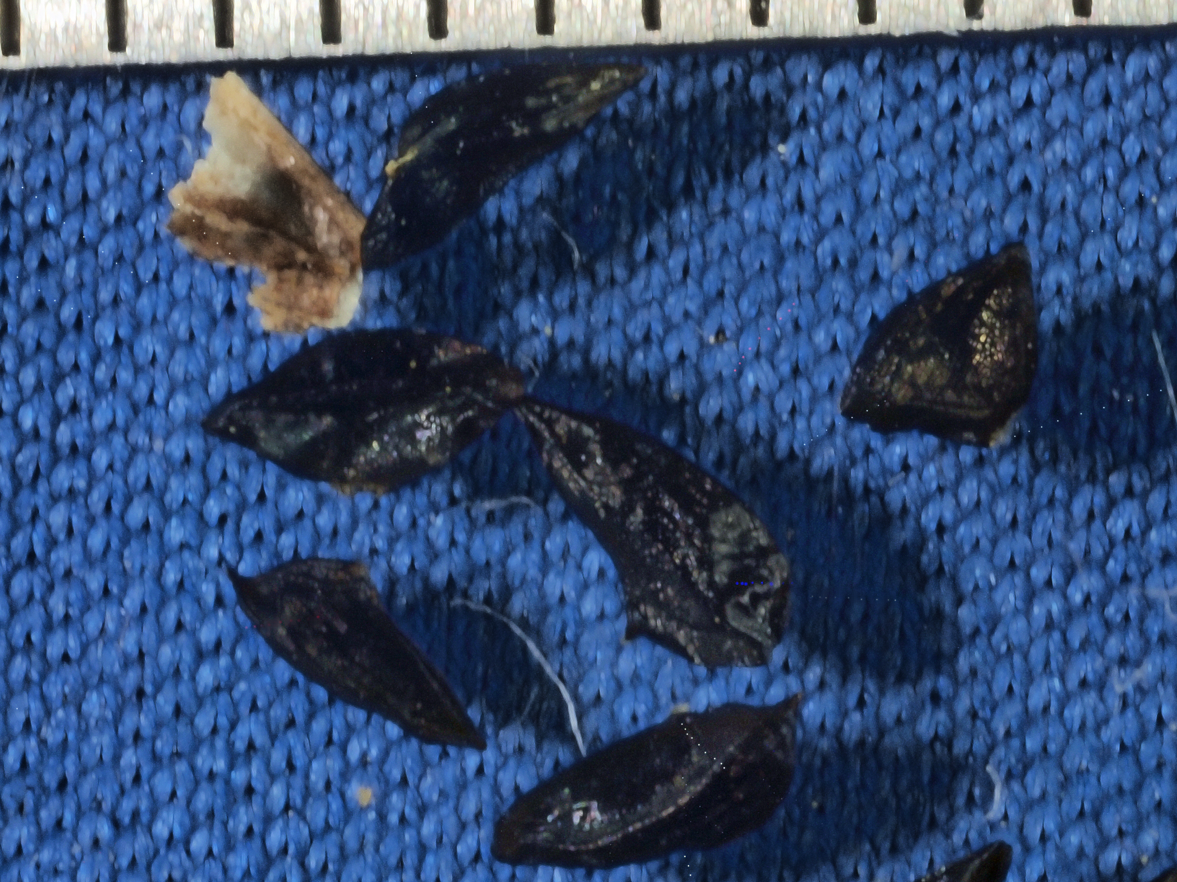 Seeds of Brodiaea californica. The seeds measure 3-4 mm. The whitish bit is a minuscule piece of chaff left when the seeds were cleaned. The seeds were collected in 2016 at Regional Parks Botanic Garden located in Tilden Regional Park near Berkeley, CA